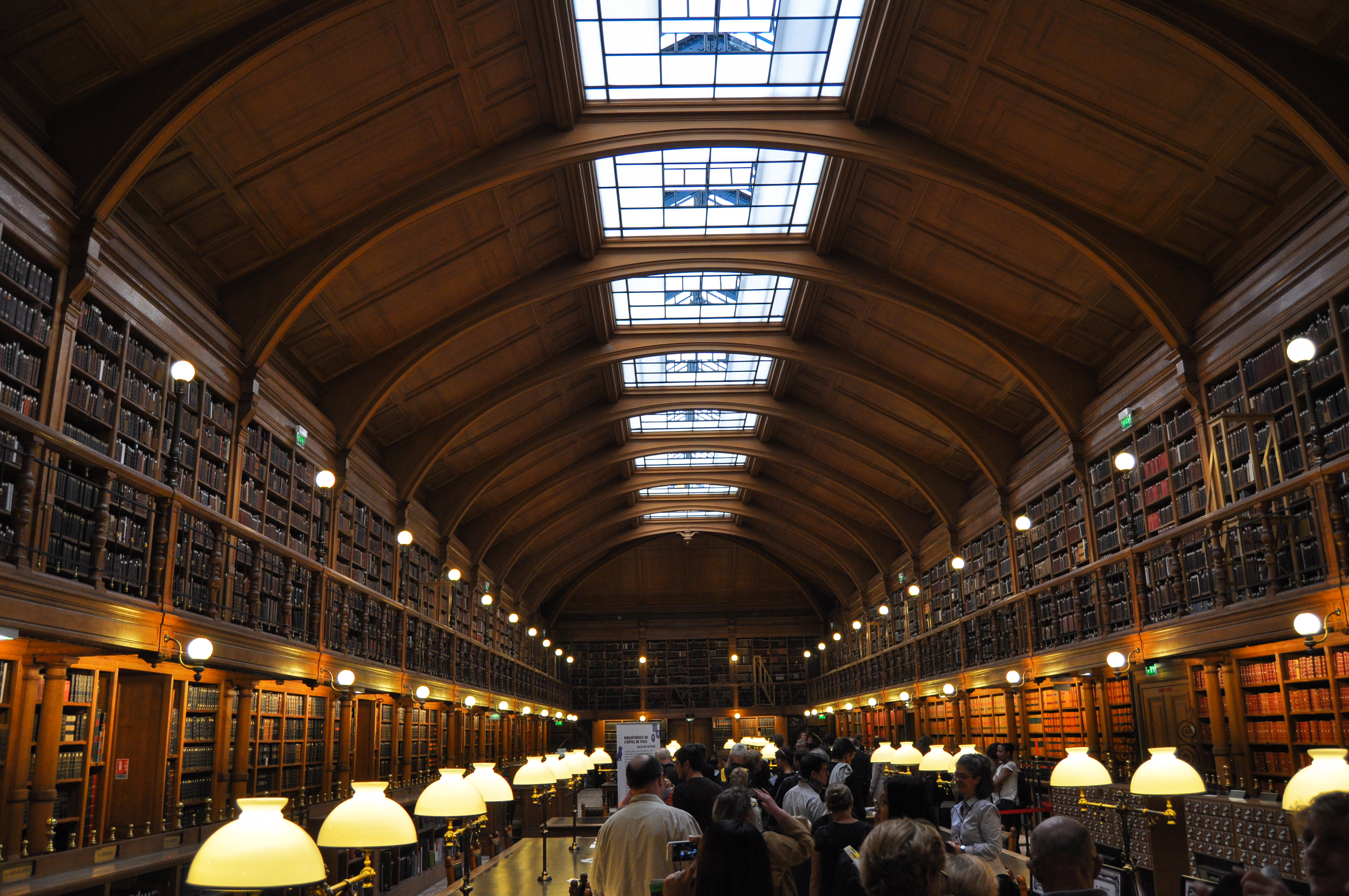 Paris City Hall, European Heritage Day, September 2013.